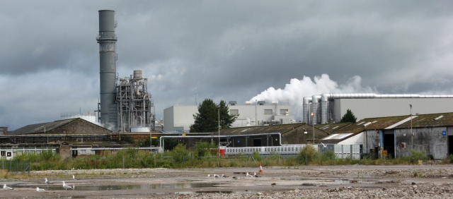 Industrial Development at Sully, Barry Power Station viewed from Hayes Road